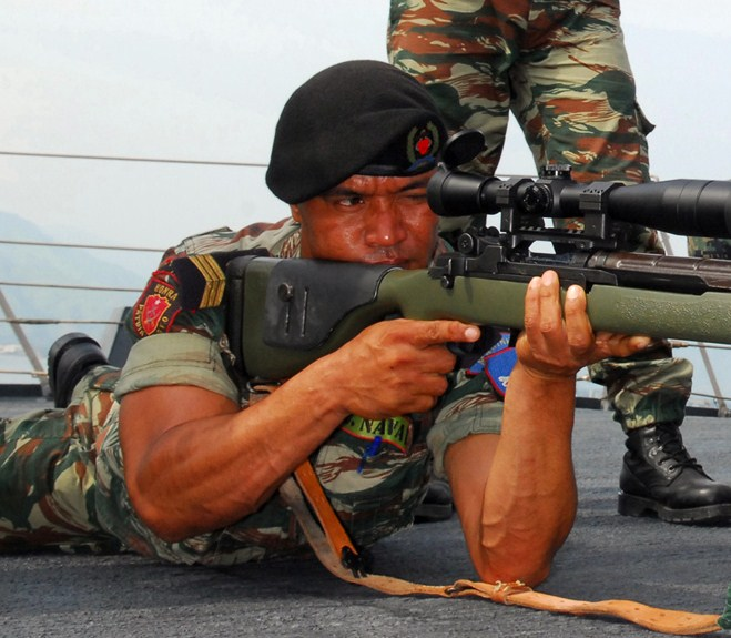 DILI, Timor-Leste (Jan. 28, 2009) Gunnery Sgt. Alex Carlson explains the specifications and uses of the M14 designated marksman rifle to members of the Timor-Leste Defense Force (Navy) aboard the Arleigh Burke-class guided-missile destroyer USS Lassen (DDG 82). Lassen arrived in Dili Jan. 26 on a scheduled port visit. Lassen is assigned to Destroyer Squadron 15 and is forward-deployed to Yokosuka, Japan.